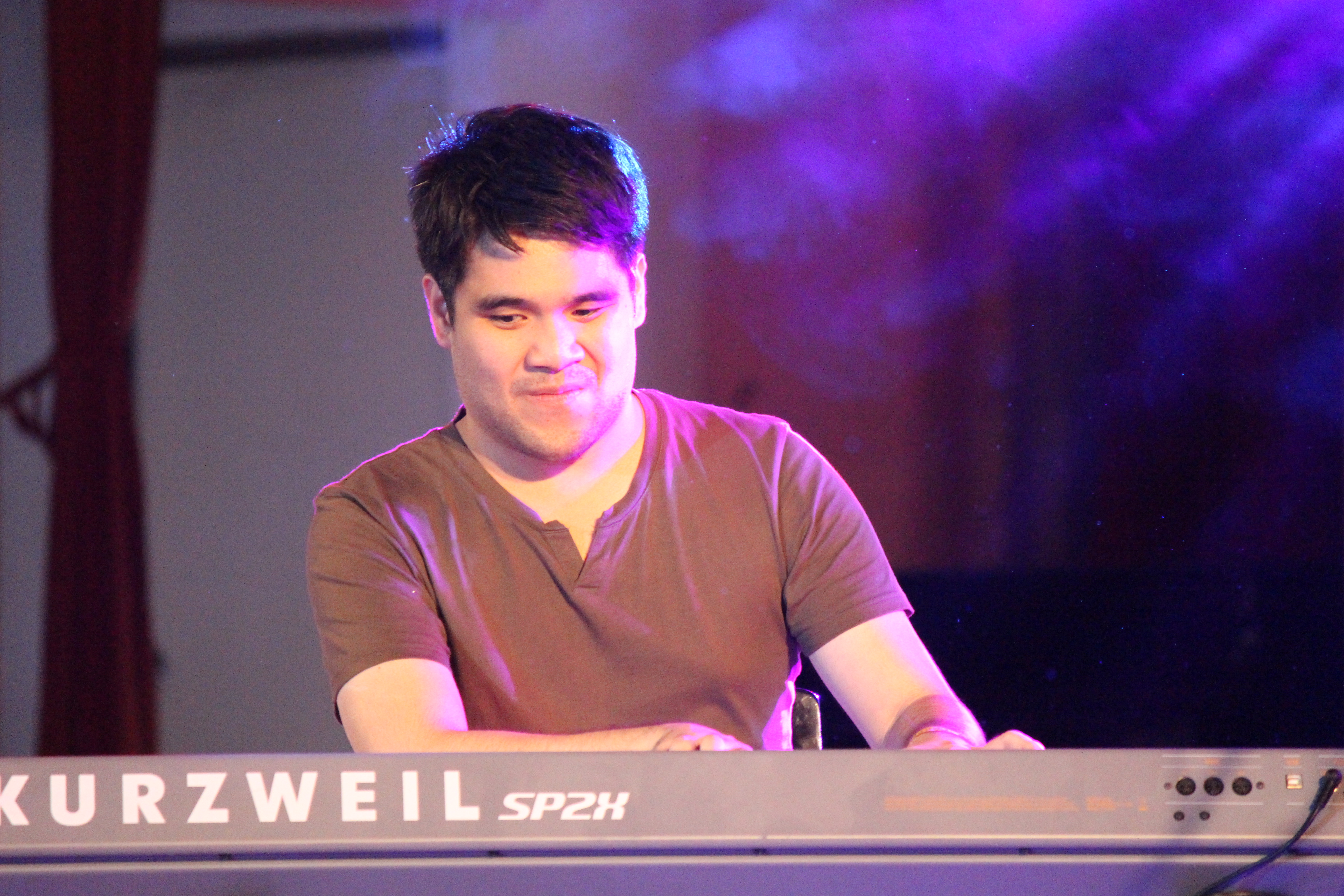 Taiwanese pianist Huang Yu-Siang (黃裕翔) performing at the 2016 Amis Music Festival (阿米斯音樂節) in Dulan Village (都蘭), Taitung County, Taiwan